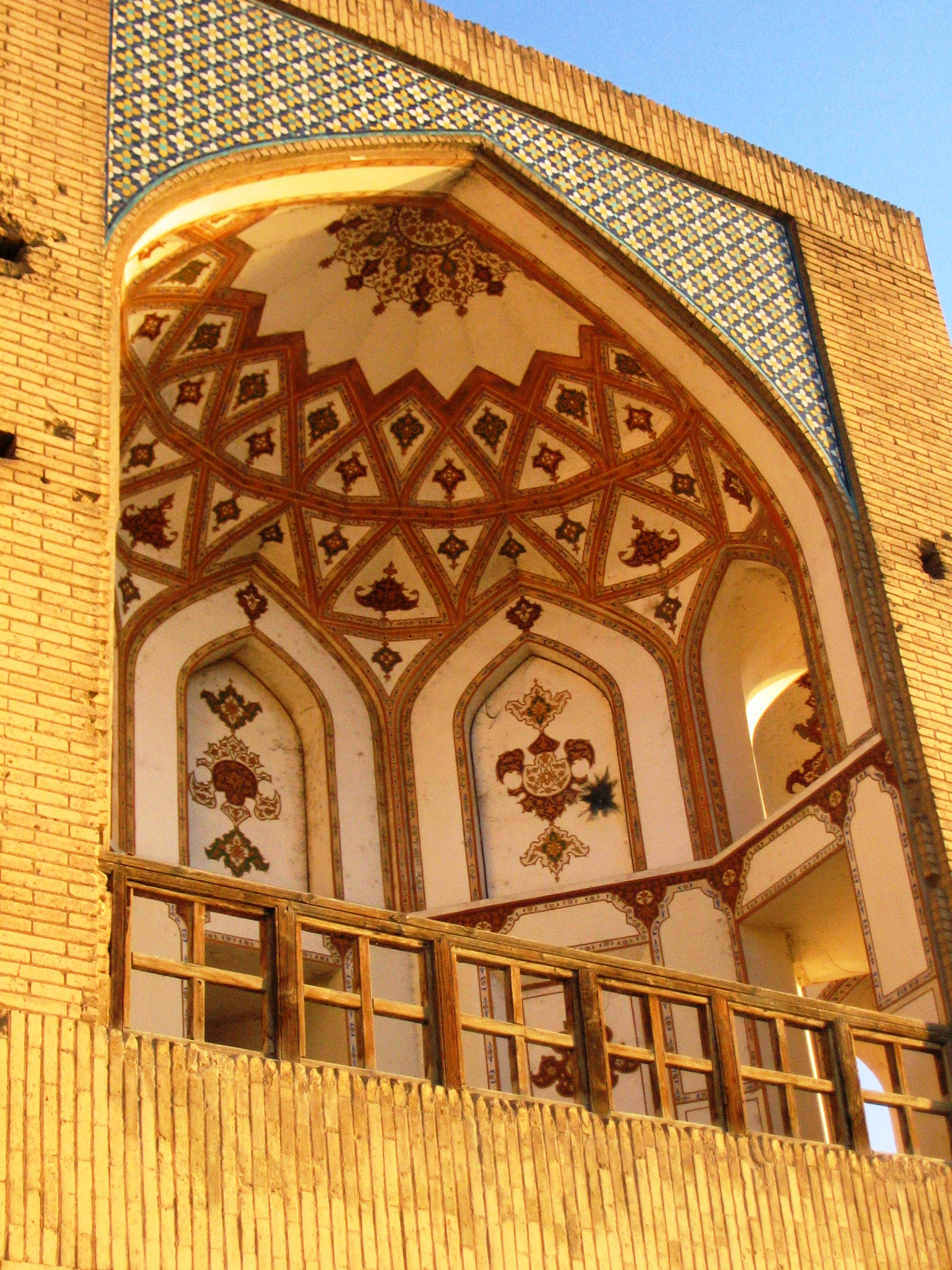 Detail of Khaju Bridge in Esfahan, Iran.